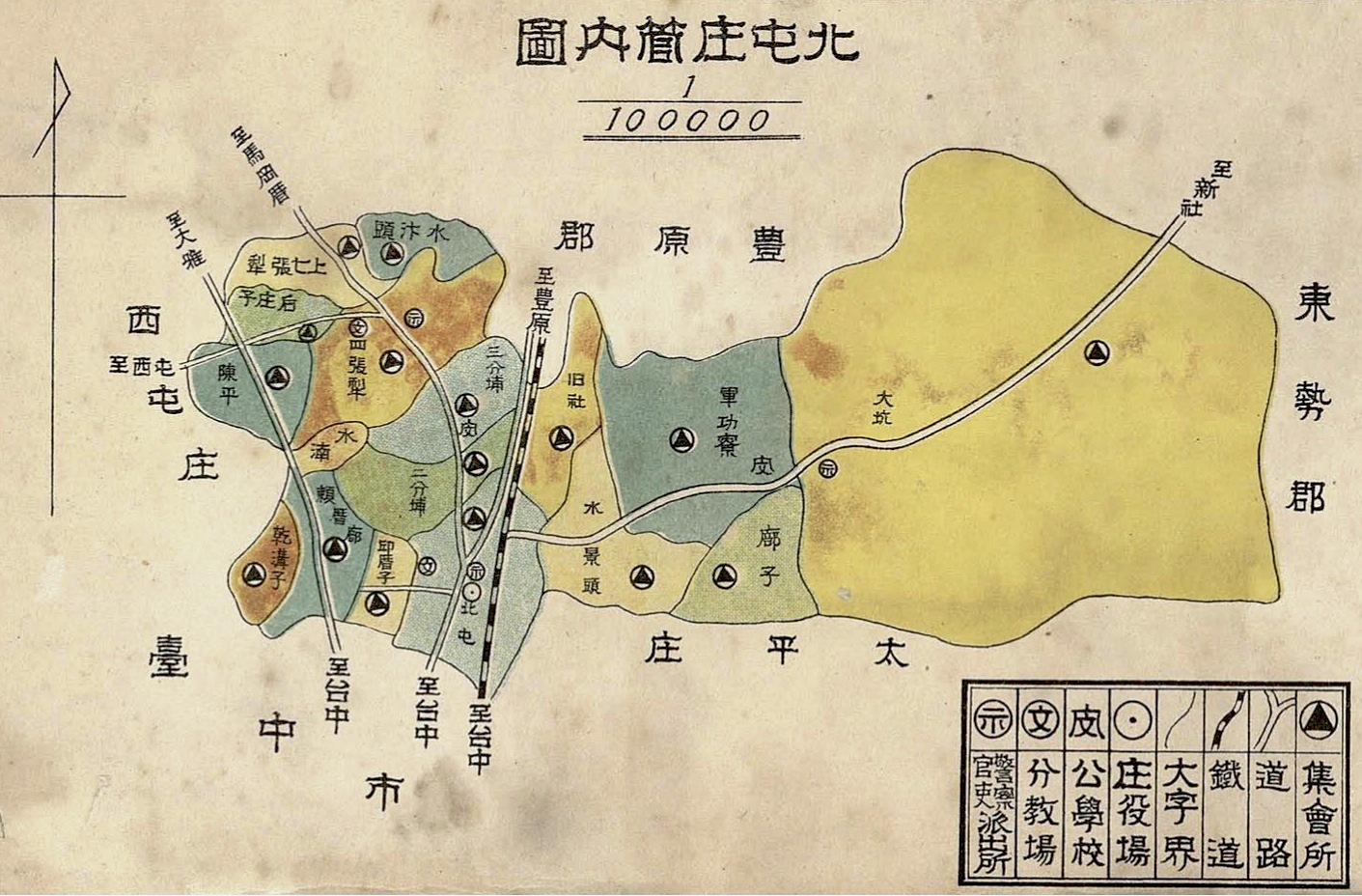 Map of Hokuton-sho